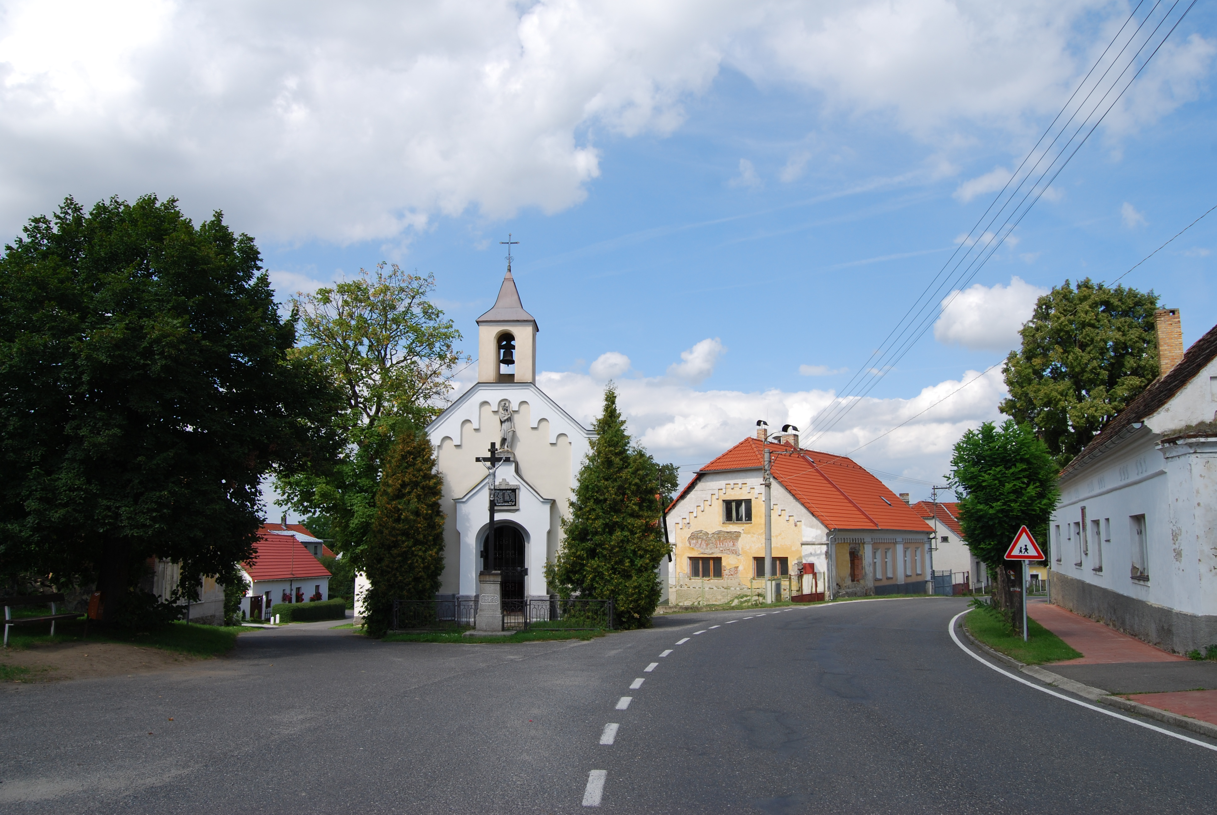 Vráž village in Písek District, Czech Republic.